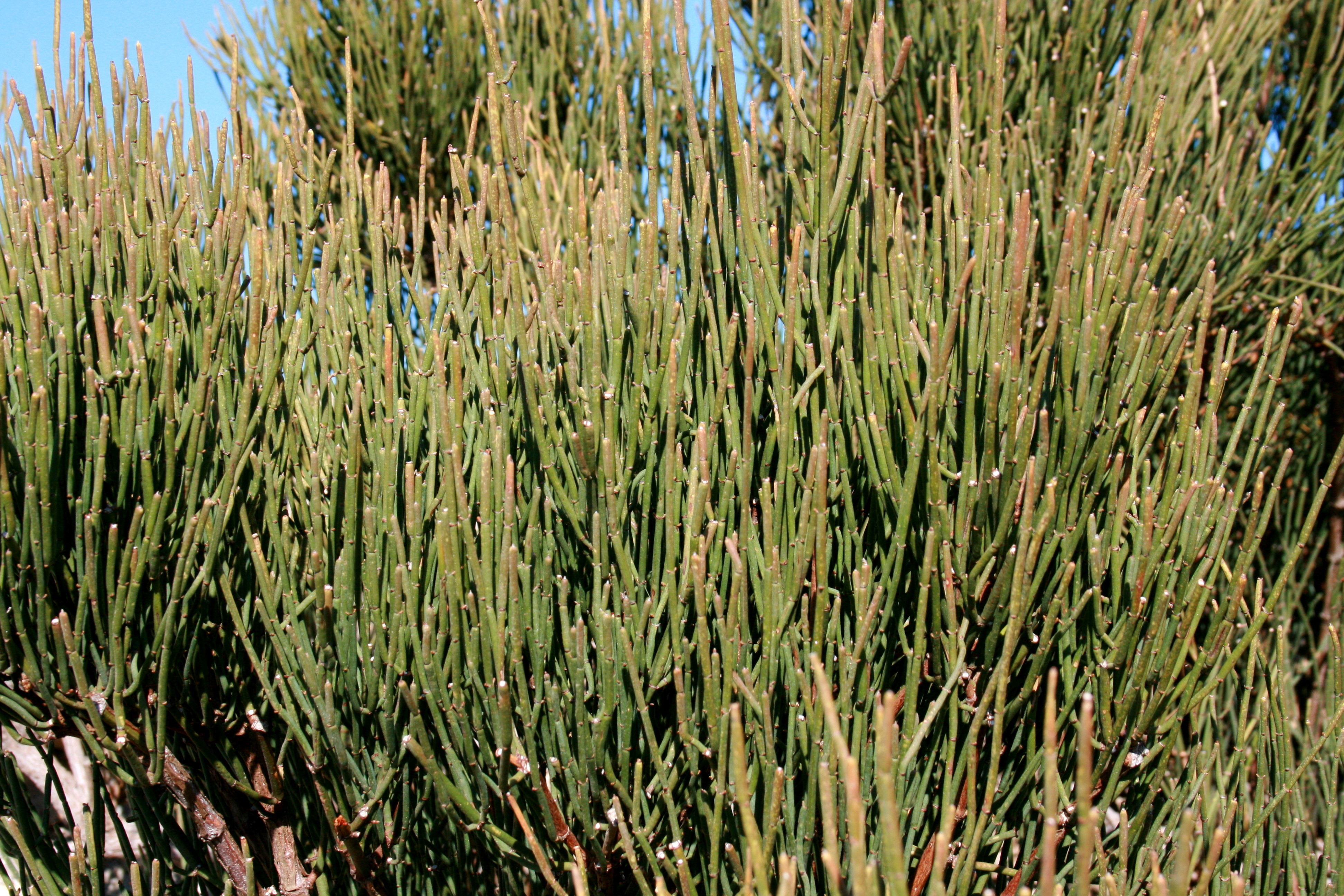 Ephedra fragilis growing at Cap de Formentor, peninsula of Formentor, Pollença, Mallorca